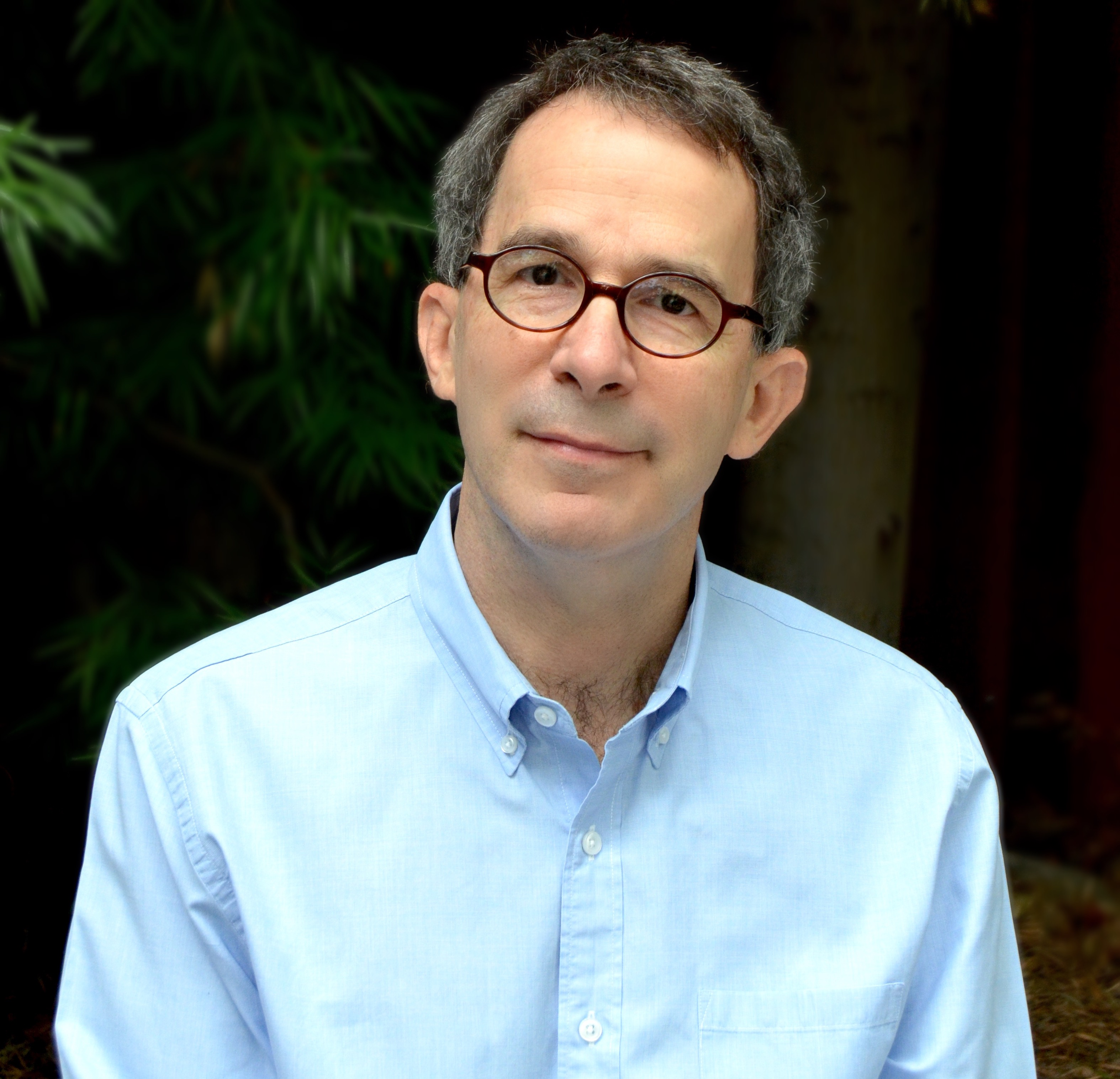 Headshot of screenwriter Robert Nelson Jacobs